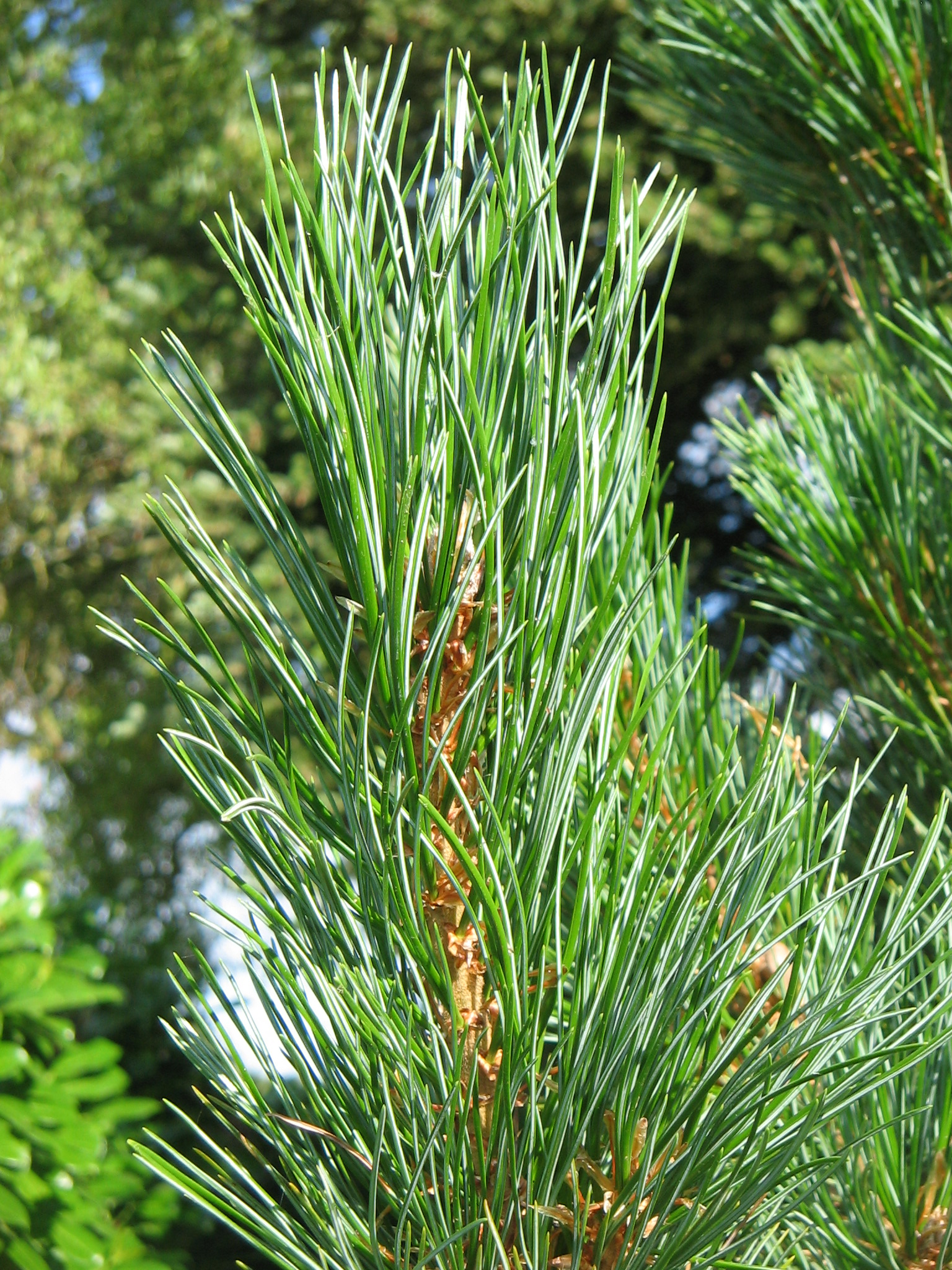 Pinus cembra close-up leaves